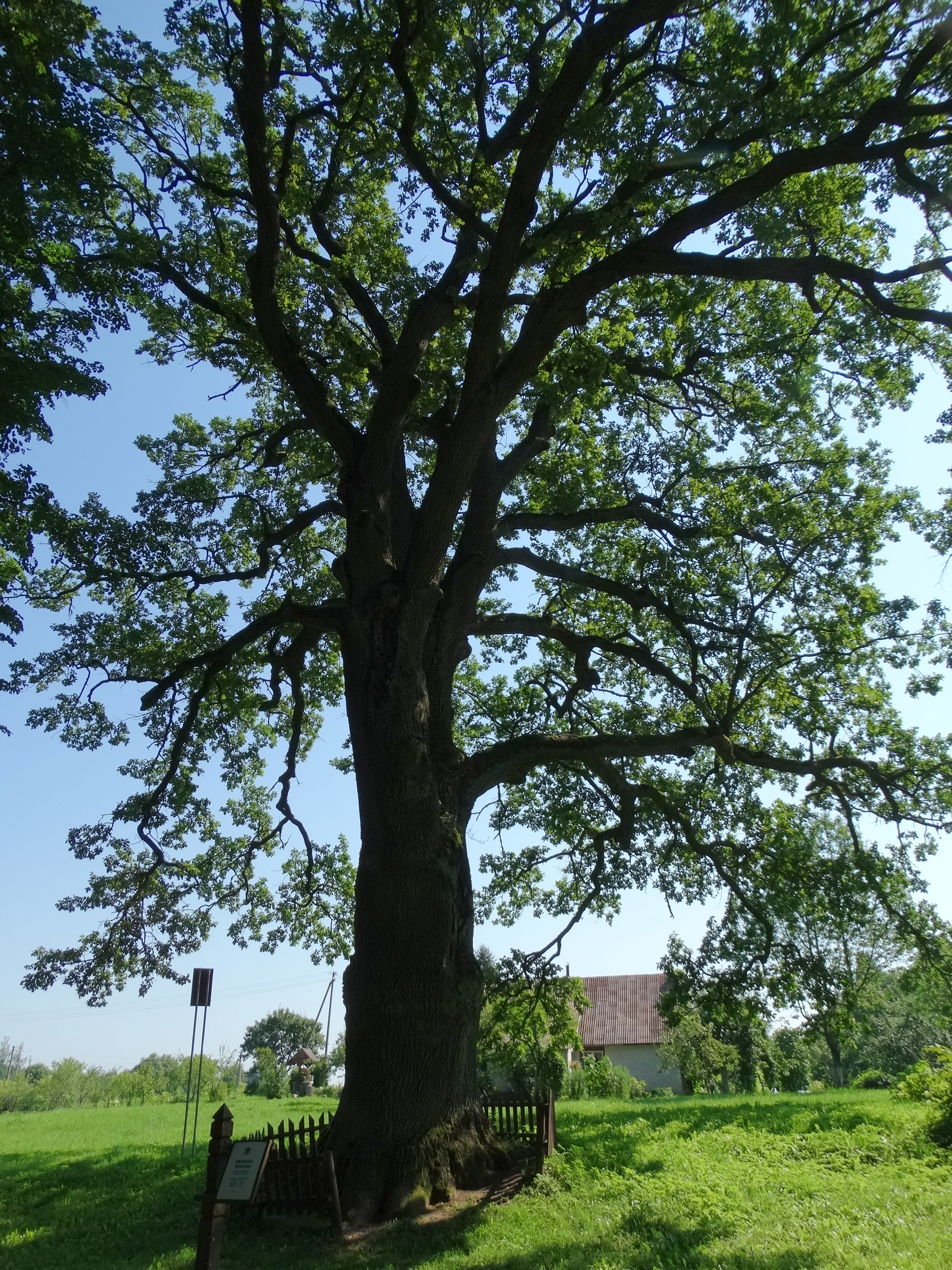 Bradesiai Oak, Rokiškis District, Lithuania